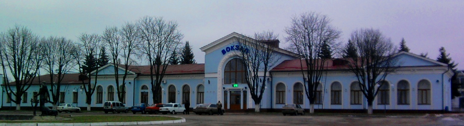 Railway station in Izium, Kharkiv Oblast